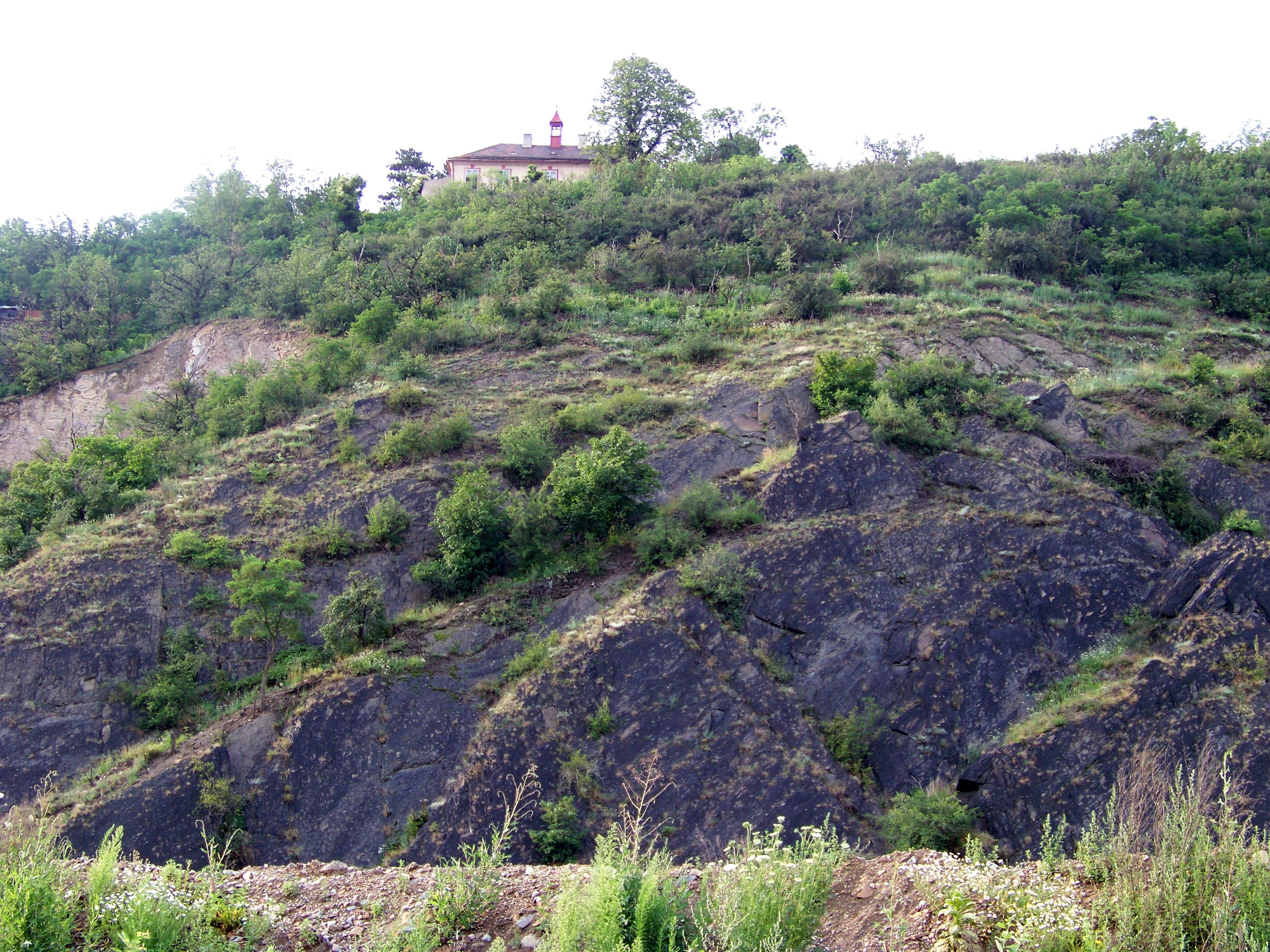 Libeň and Troja, Prague, the Czech Republic. - Google Maps - Google Earth